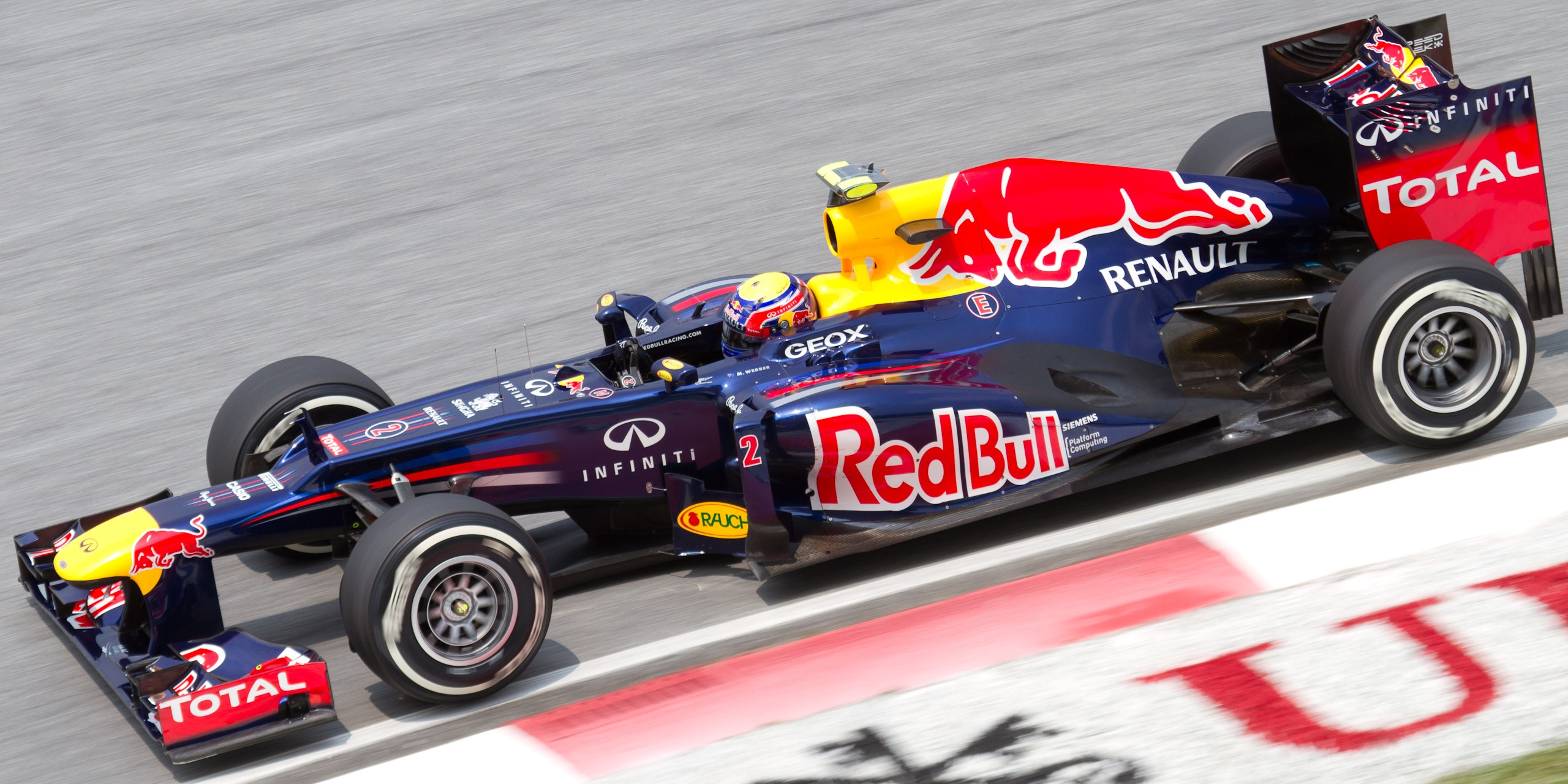 Formula One 2012 Rd.2 Malaysian GP: Mark Webber (Red Bull) during the second practice session on Friday.